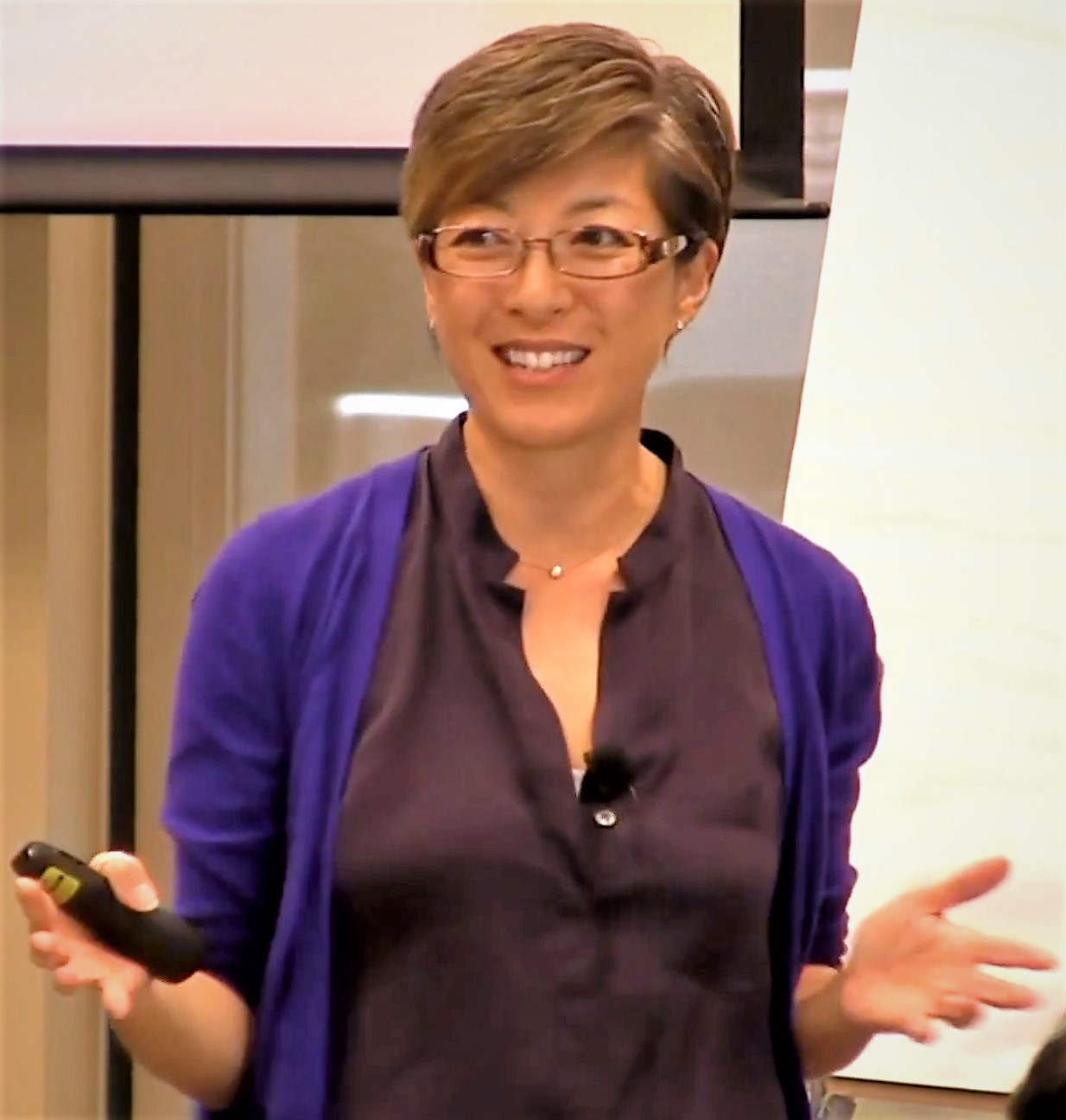 Sora Park Tanjasiri: Research In The Community Session Recorded on March 13, 2012. Research in the Community: Reviewing the concepts of "research" and "community", as well as the accomplishments, impact, and benefits of different types of research (basic/laboratory, clinical, and community-based). Discussion will include quantitative and qualitative research methods, including an introduction to community based participatory research and translational science. This talk features special presenter Dr. Sora Park Tanjasiri. For more information and access to courses, lectures, and teaching material, please visit the official UC Irvine OpenCourseWare website at